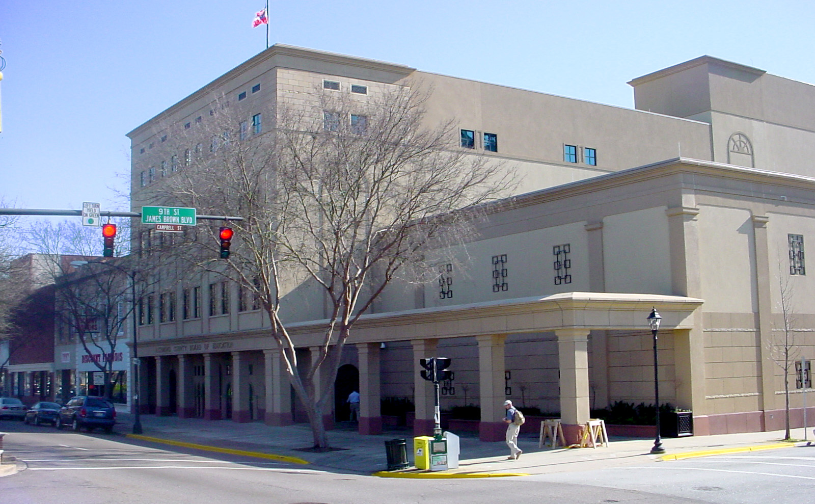 Augusta, Georgia, USA. Richmond County Board of Education central office, at corner of Broad Street and James Brown Boulevard (Ninth Street)